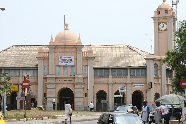 General Post Office in Accra, Ghana. It is a remnant from the colonial days.